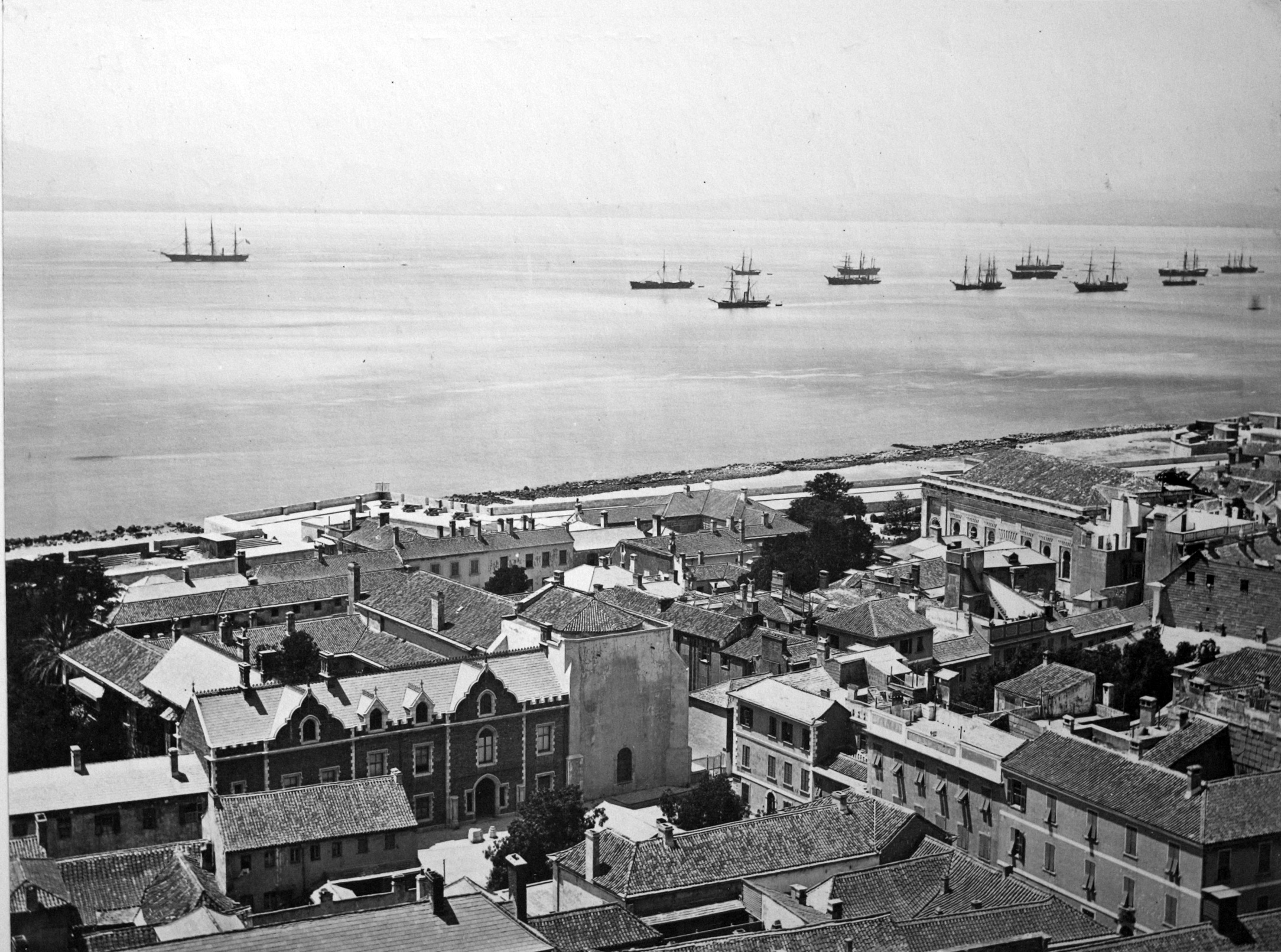 The Convent and Anglican Cathedral, Gibraltar